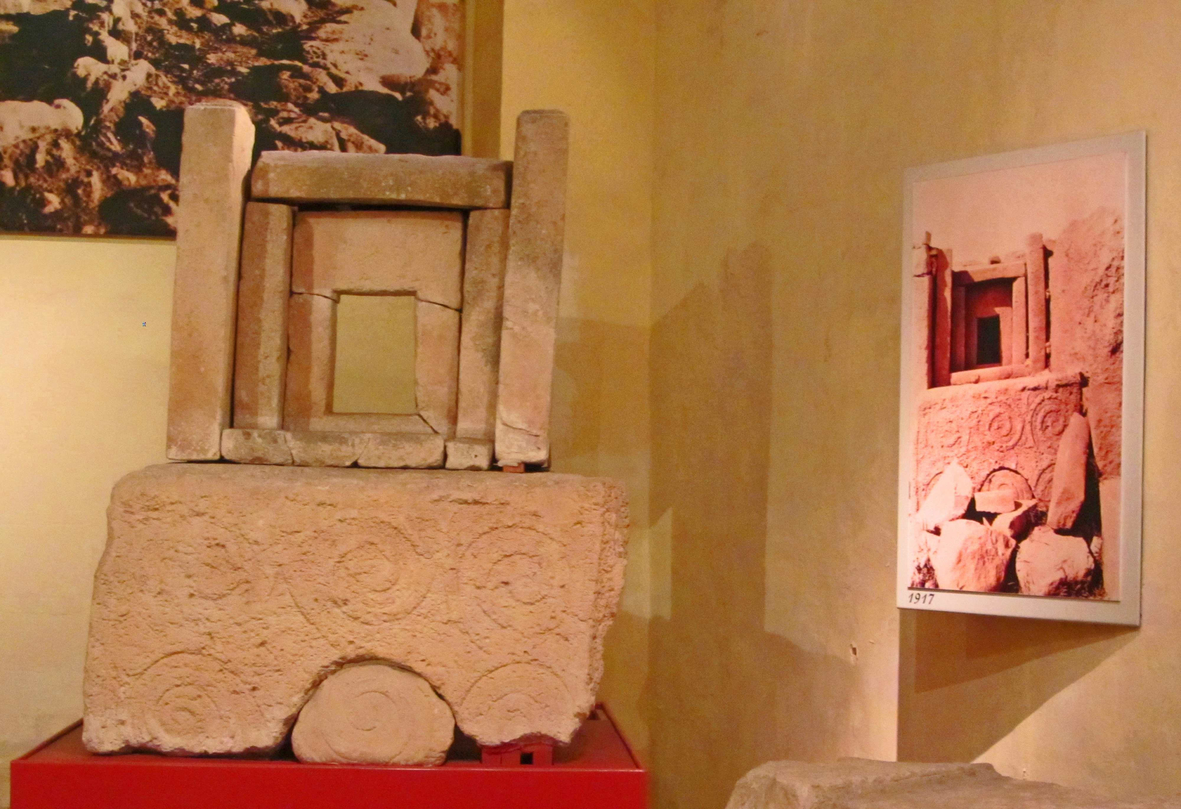 Altar from the Megalithic Tarxien temple in the Museum of Archaeology, Valletta, Malta